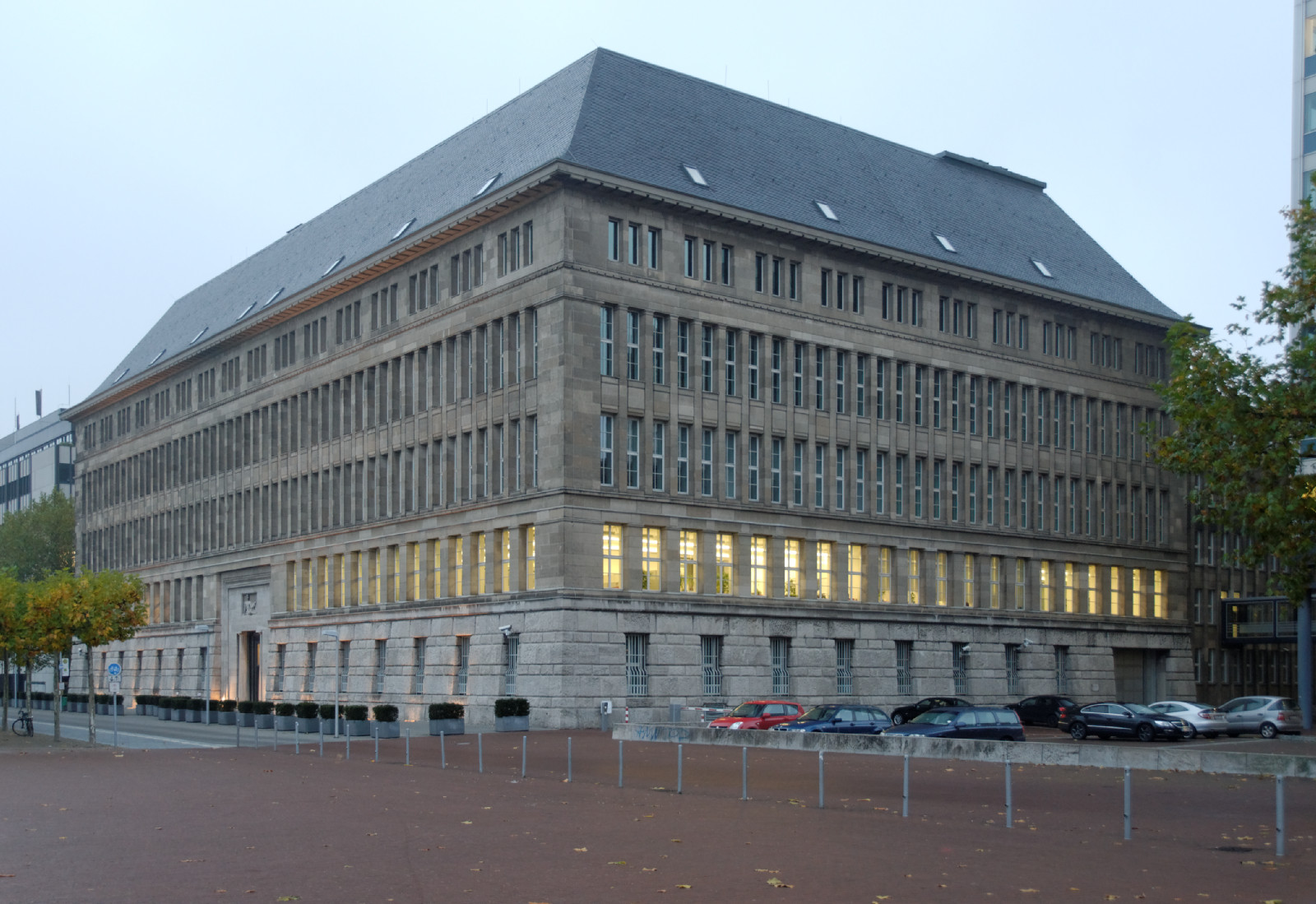 Building Mannesmannufer 2 in Düsseldorf-Carlstadt, Germany This is a photograph of an architectural monument.